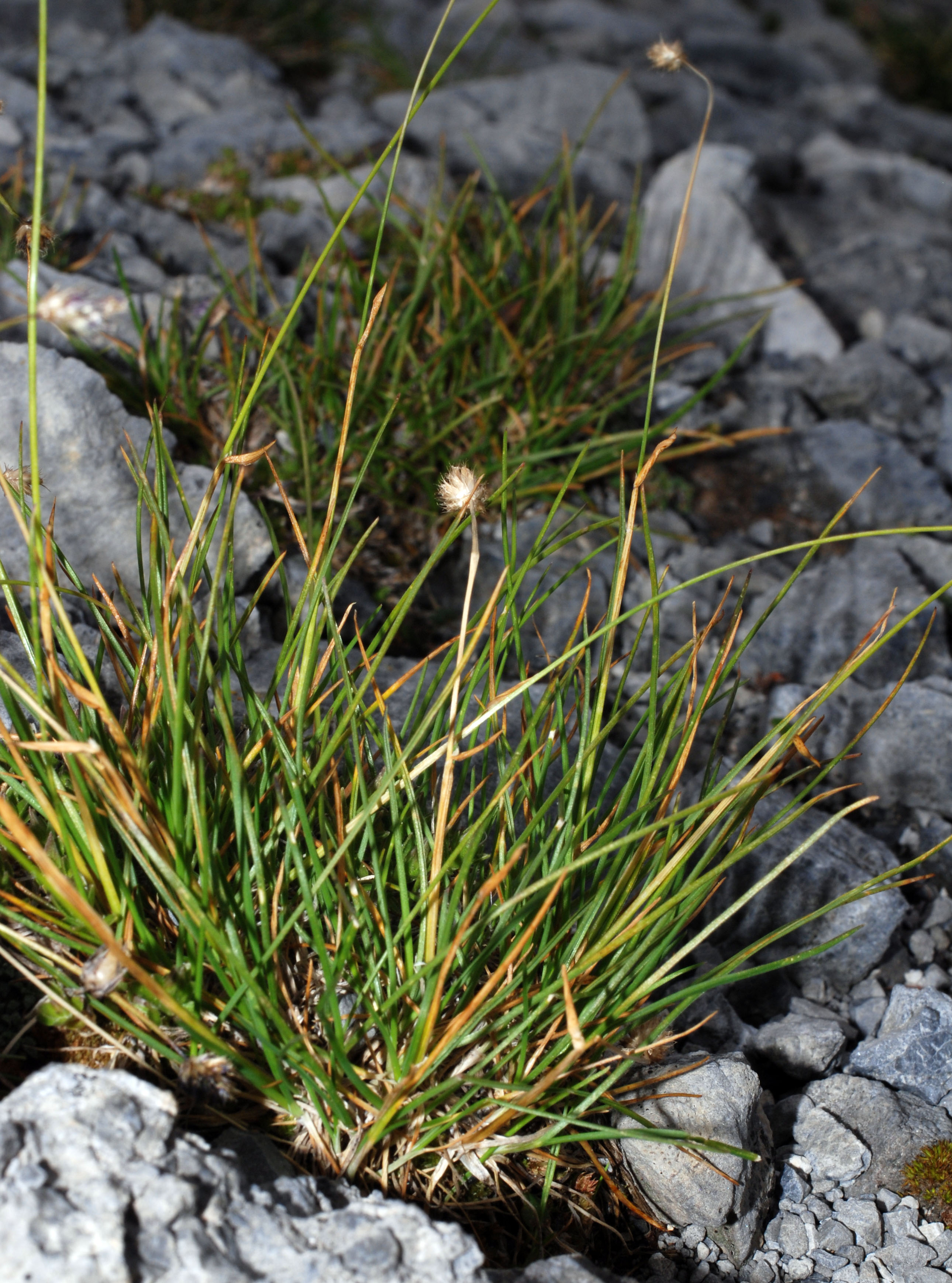 Sesleria sphaerocephala, Erlacher-Bock Scharte, Nockberge, Carinthia, Austria